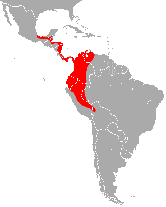 Thomas's Shaggy Bat (Centronycteris centralis) range